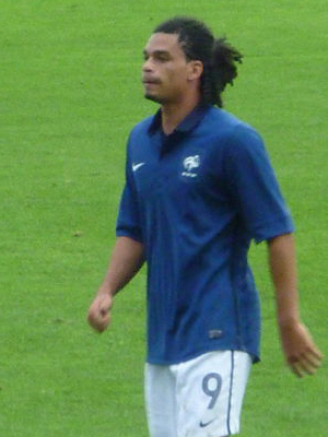 Emmanuel Rivière, striker of the French U21 national team. Qualifier against Kazakhstan in Clermont-Ferrand.